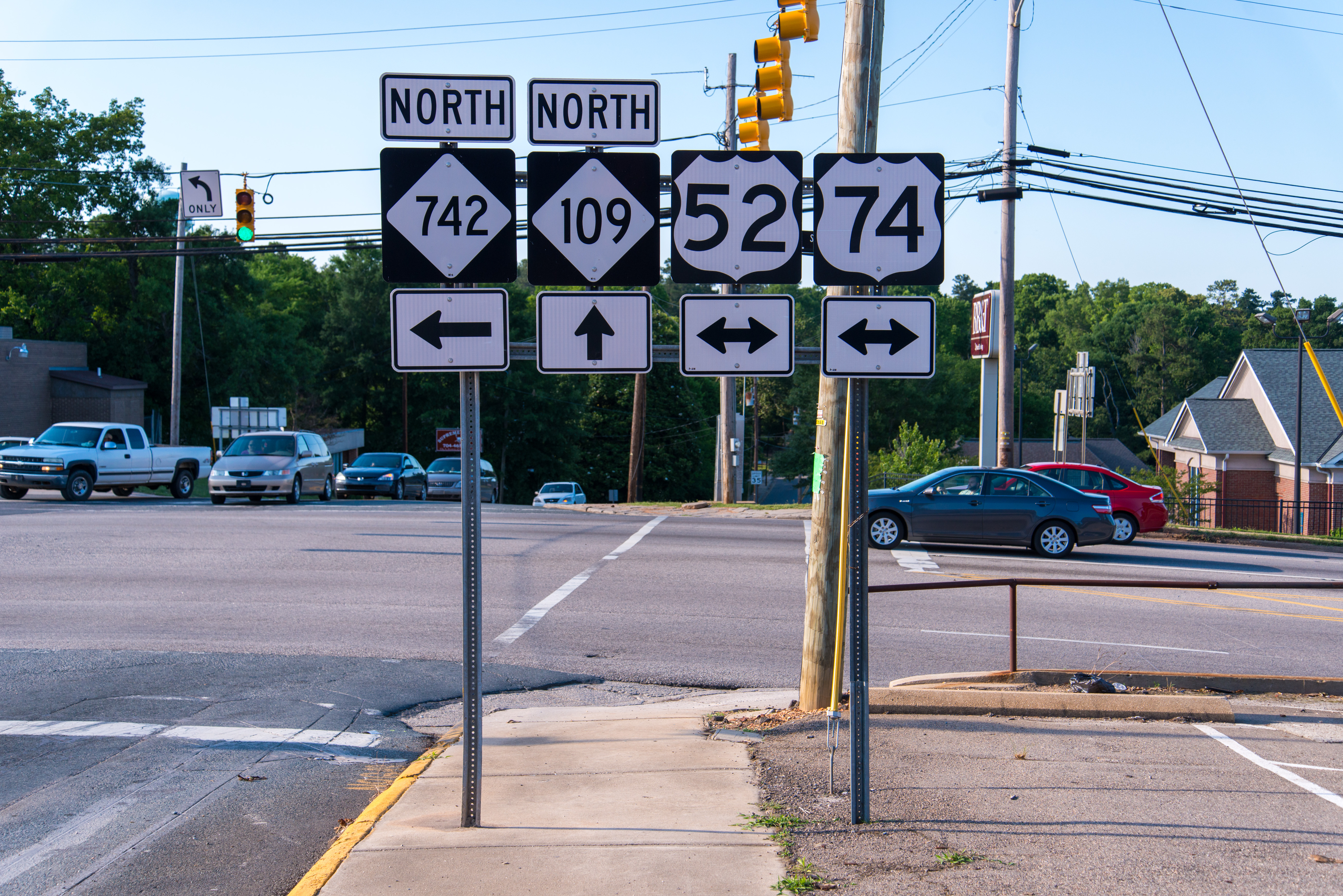 Located at the intersection of Greene and Caswell Streets are all four highways traverse through Wadesboro, connected at one intersection: US 52, US 74, NC 109 and NC 742.